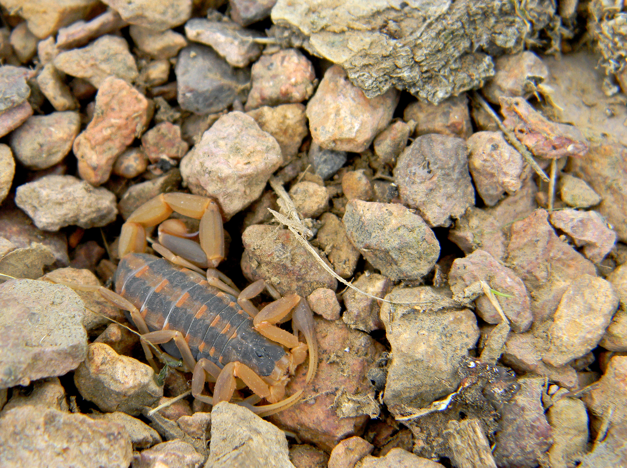 A striped scorpion, photographed at Taum Sauk Mountain State Park.